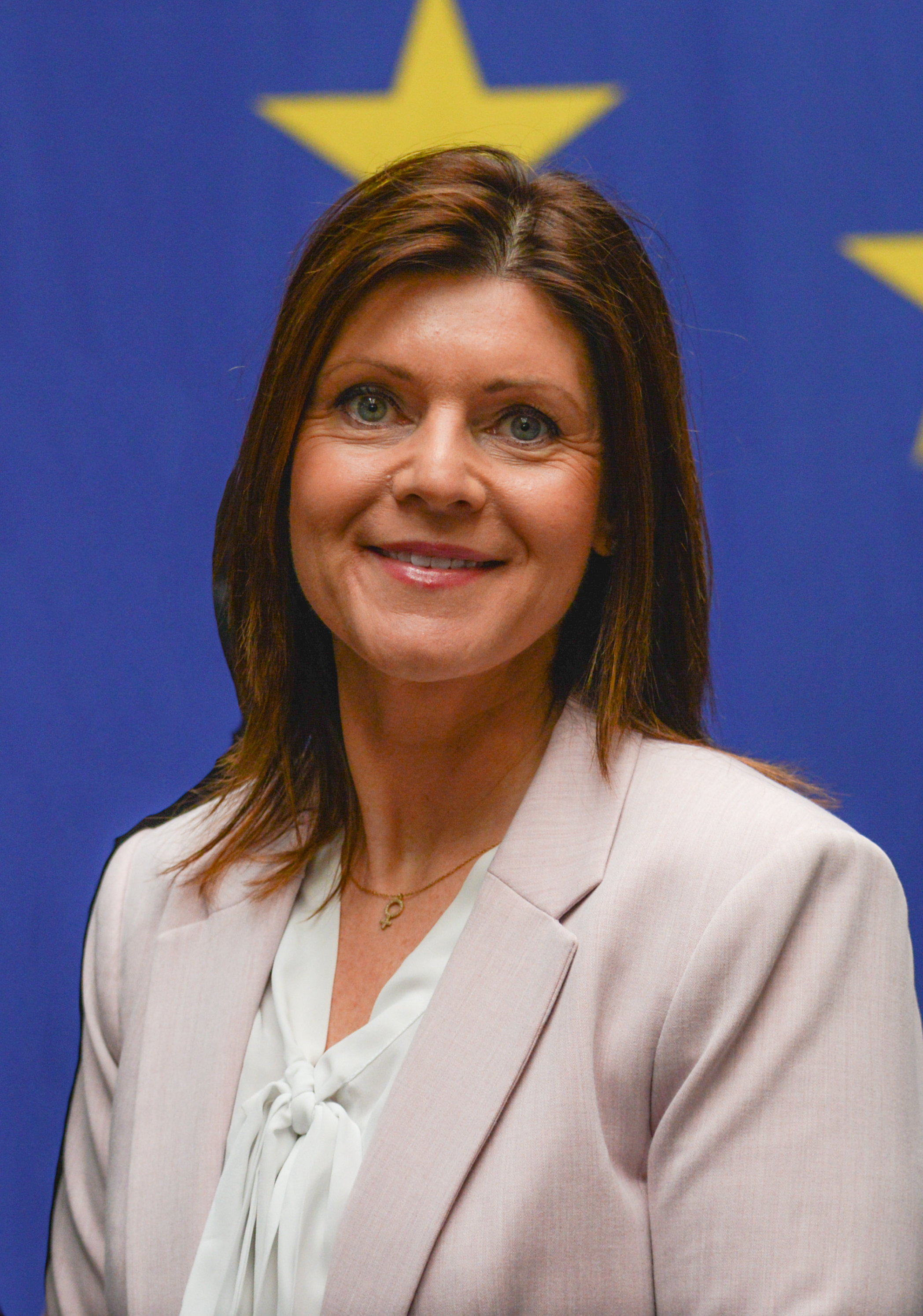 Eva Nordmark campaigns before the European Parliament elections 2019.